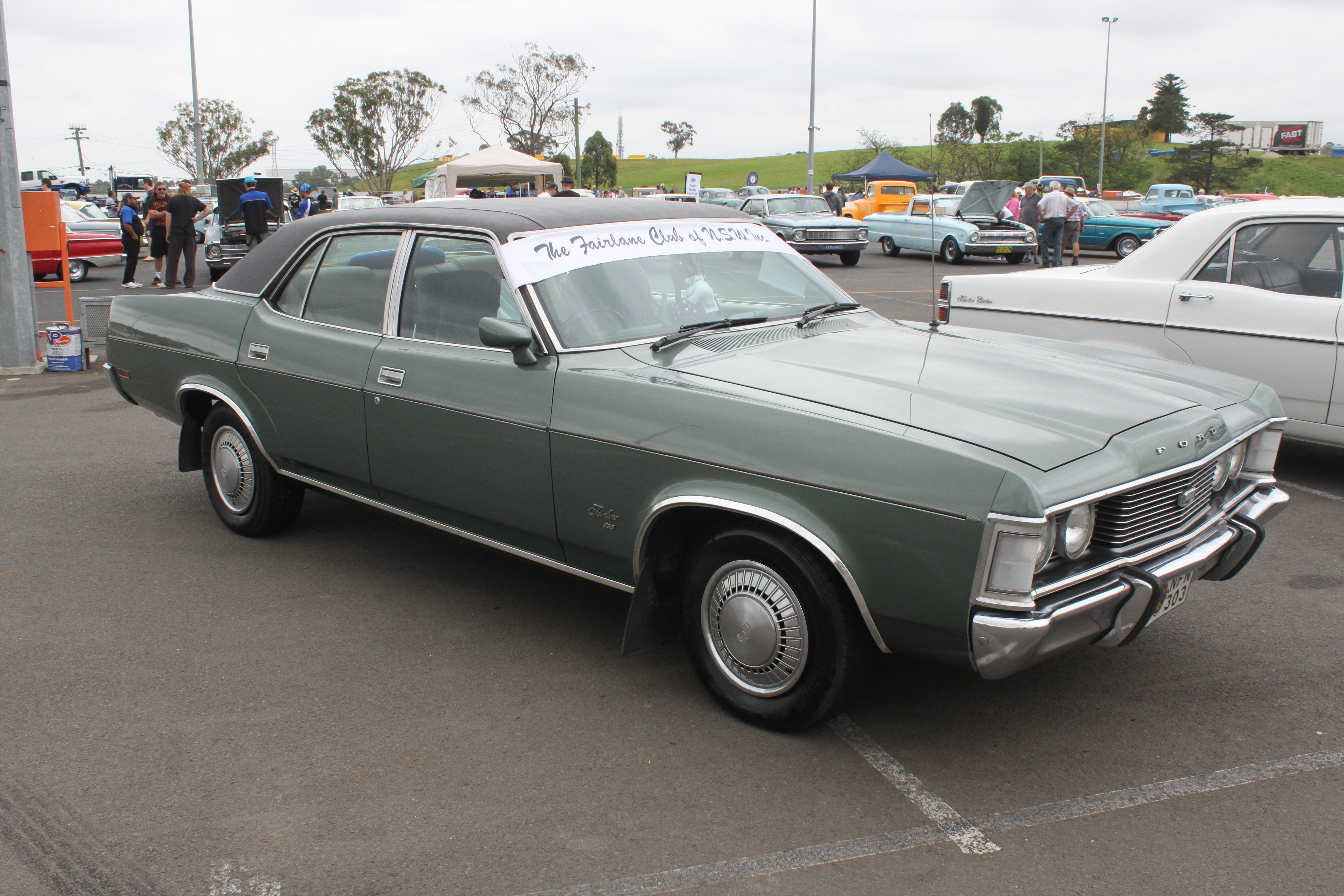 All Ford Day, Eastern Creek NSW, November 2015